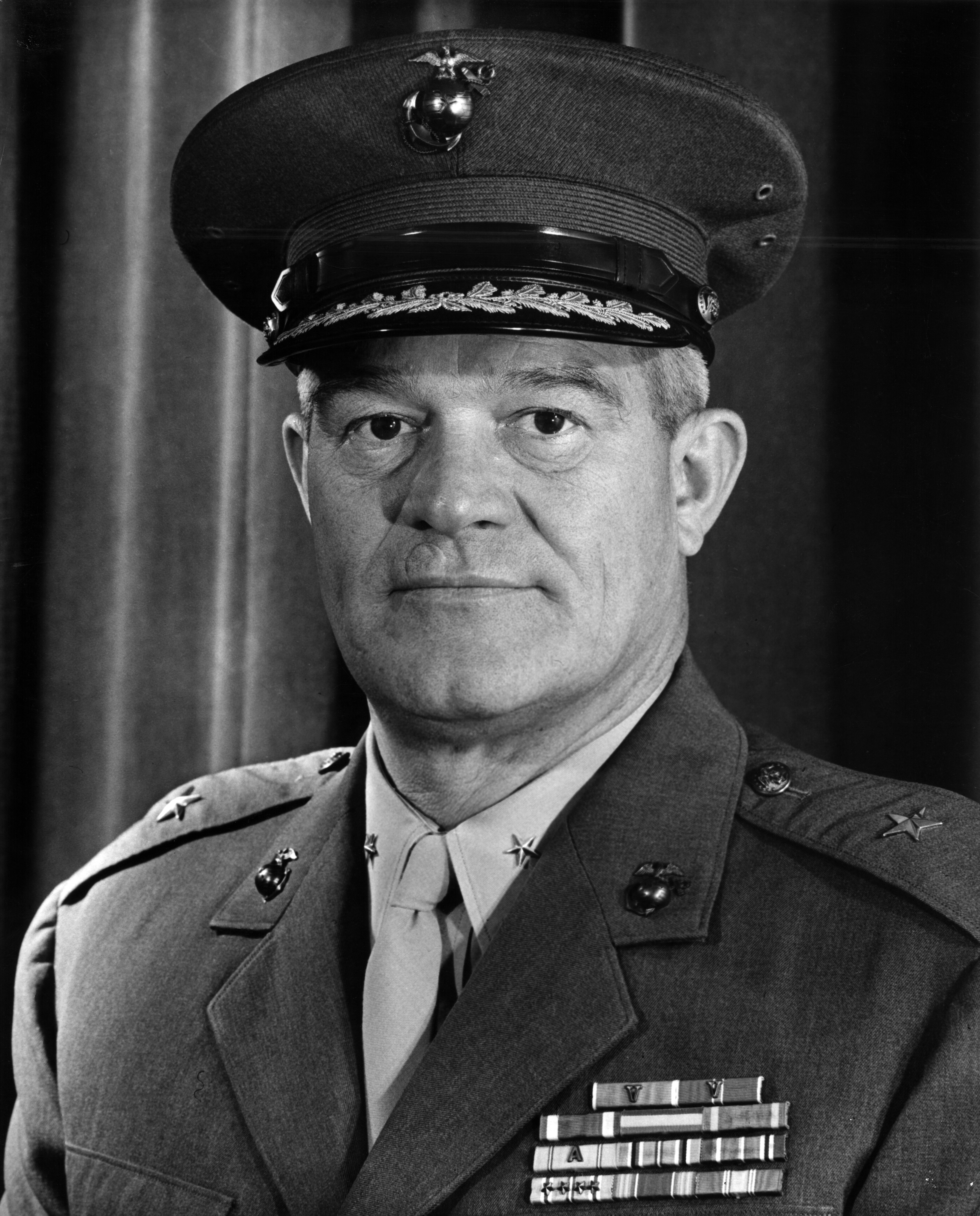 Thomas Felton Riley (July 6, 1912 - February 19, 1998) was a decorated officer of the United States Marine Corps with the rank of Brigadier General. He is most noted for his service during Guadalcanal Campaign as Commanding officer of First Aviator Engineer Battalion. Riley completed his career as Inspector General of the Marine Corps in 1964 and then served as Orange County Supervisor 1974-1994.